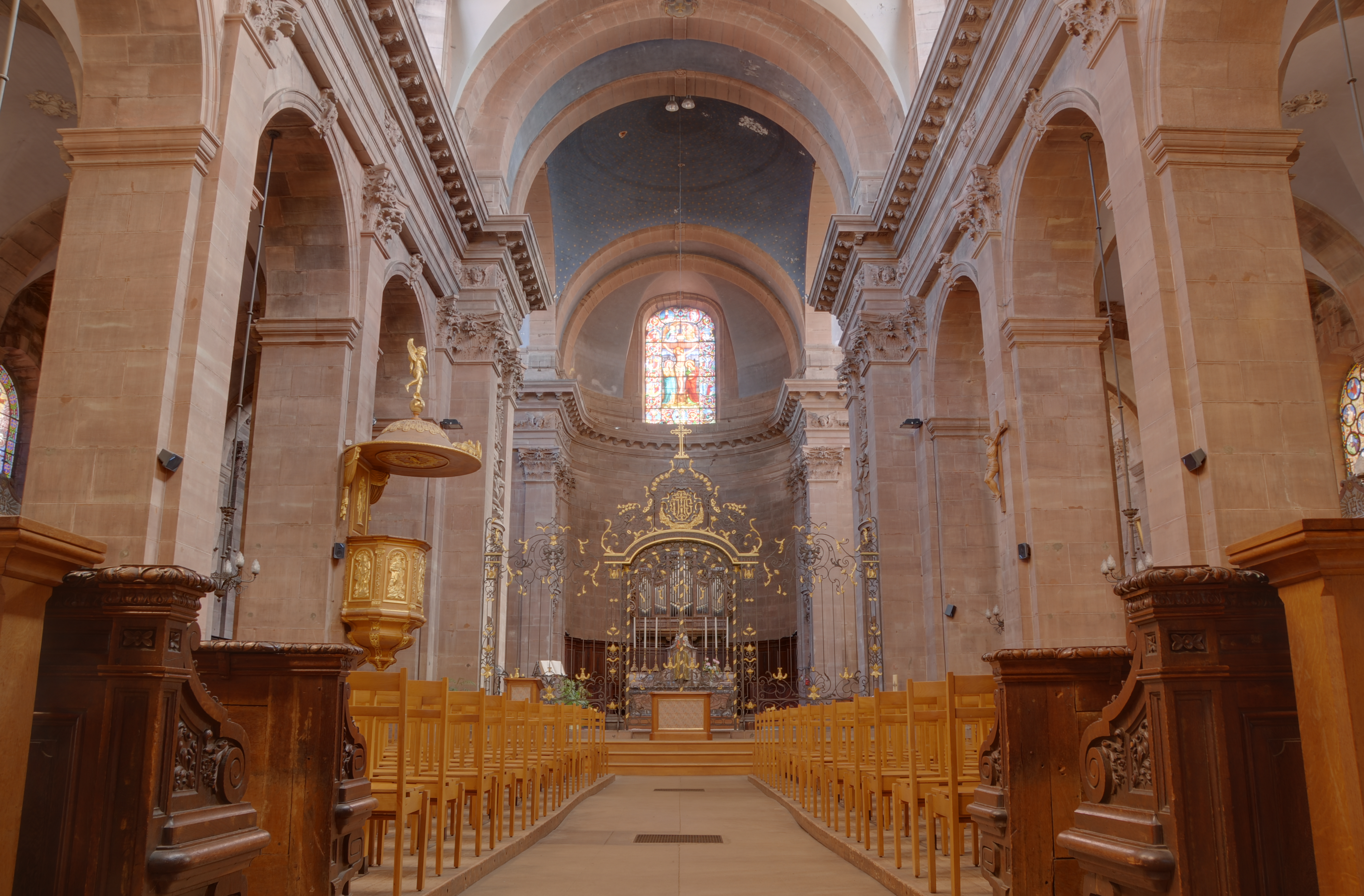 Saint-Christophe cathedral (HDR).